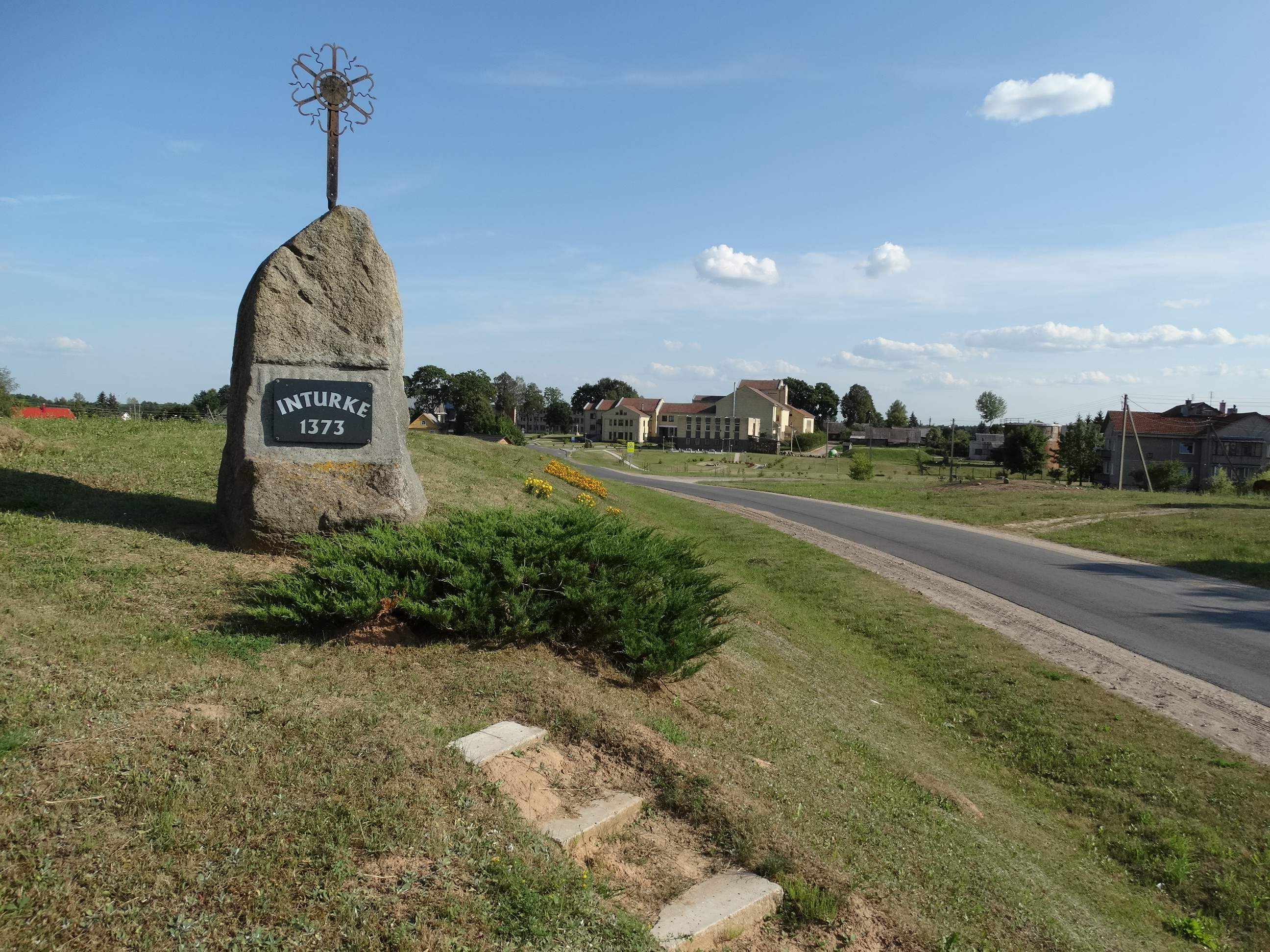 Stone, Inturkė, Molėtai district, Lithuania